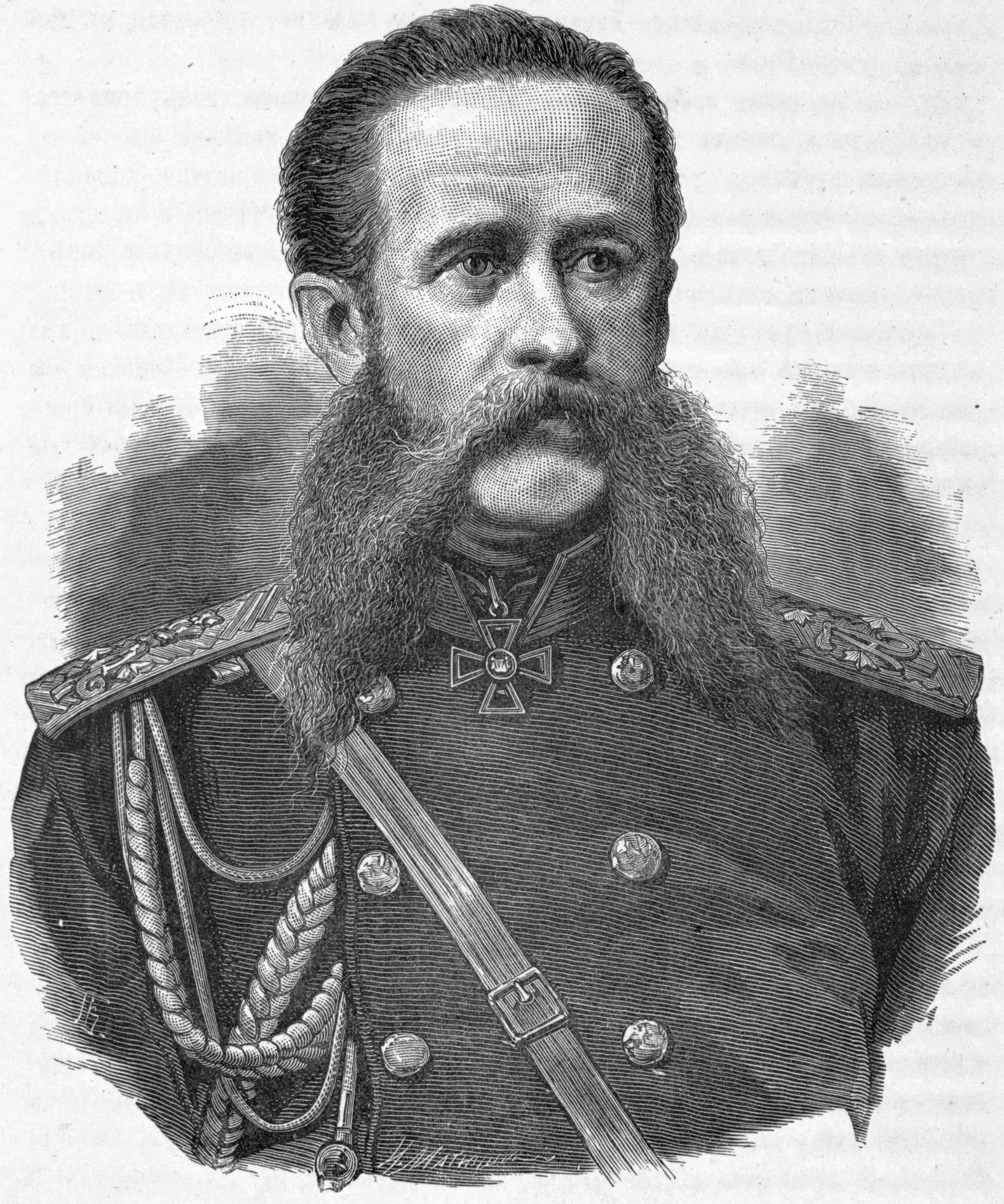 Iosif Gurko